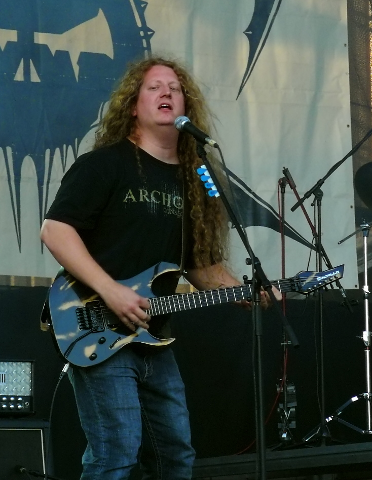 Dan Mongrain on Masters of Rock 2009 in Vizovice